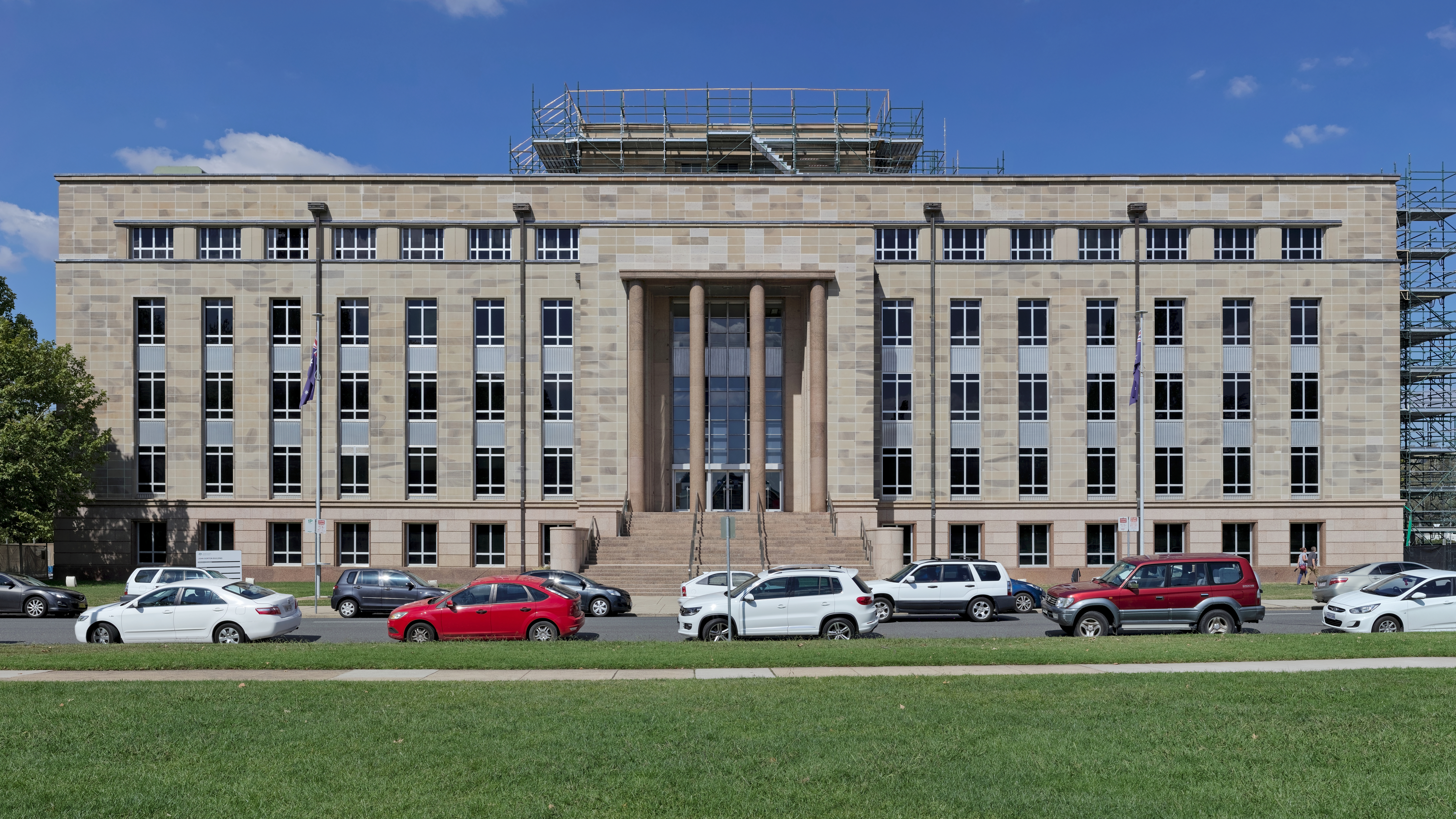 John Gorton (Department of the Environment) building, Canberra. Stitched with Hugin, perspective adjustment with Darktable.